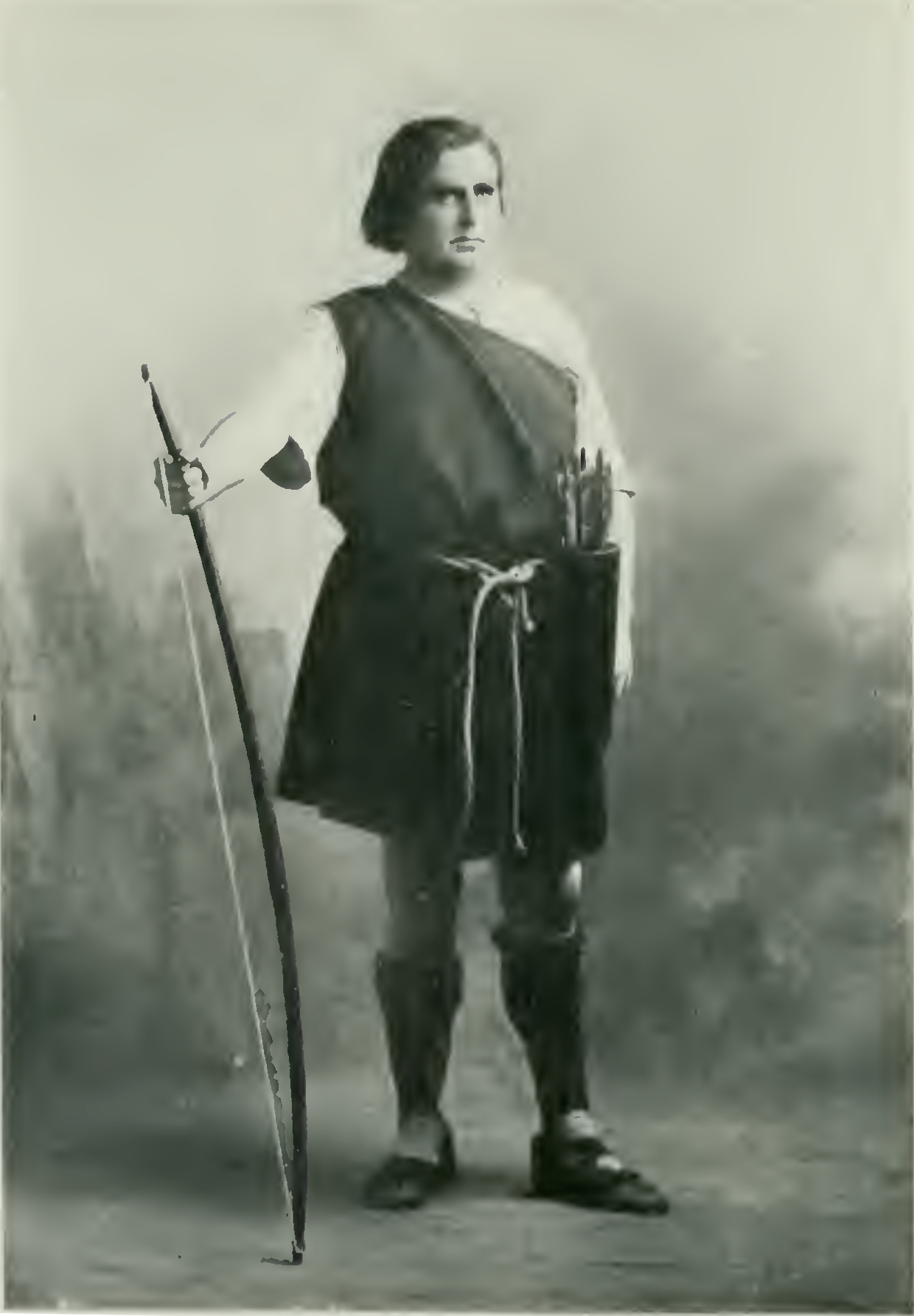 book illustration